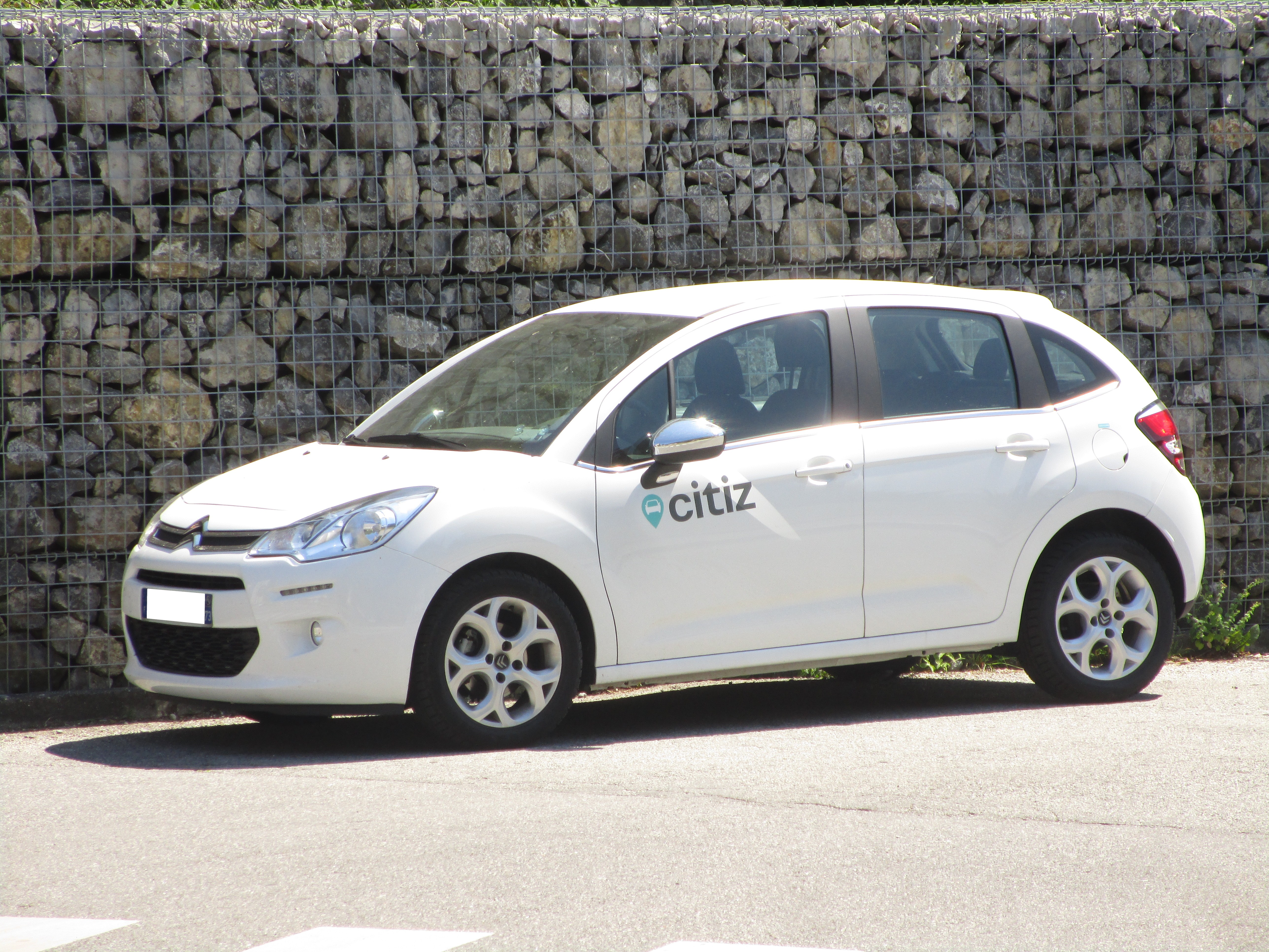 A Citroën C3 II of Citiz — in Montmélian, France — on June 20, 2017.